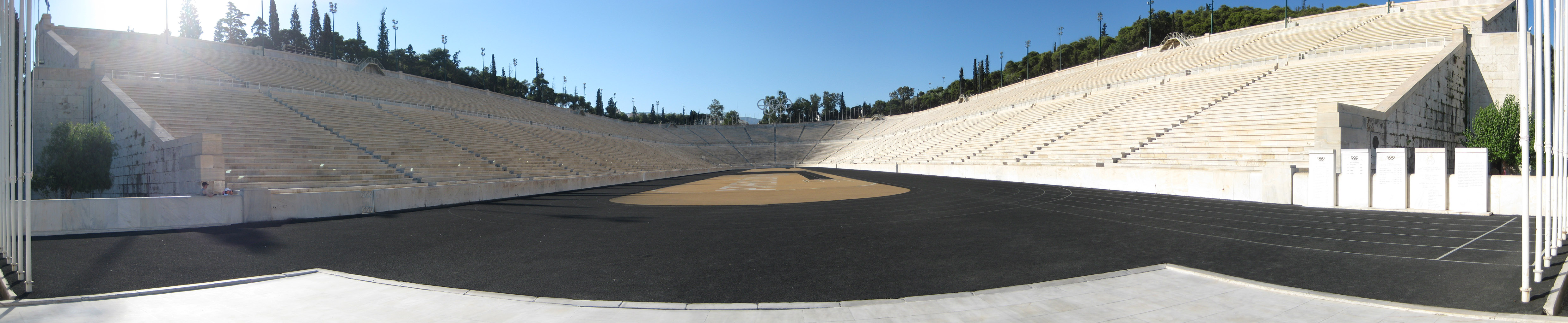 Panorama of the 1896 Olympic Stadium taken in July 2007. Photos taken with a Canon SD750 and combined with Autostitch. Taken by Craig Patik.